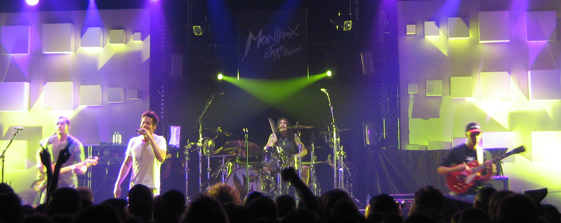 Audioslave performing live on Montreux Jazz Festival, 2005.